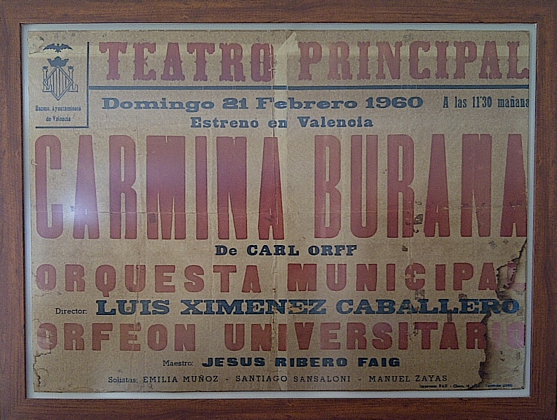 Billboard announcing the premiere of Carl Orff's Carmina Burana in the city of Valencia, Spain, with Luis Ximénez Caballero conducting the Municipal Orchestra of Valencia (Sunday, February 21, 1960)